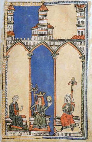 Theresa of Portugal (1080-1130), Urraca and Bermudo Peres de Trava. Os documentos do Tombo de Toxos Outos, p 11. (in galician)